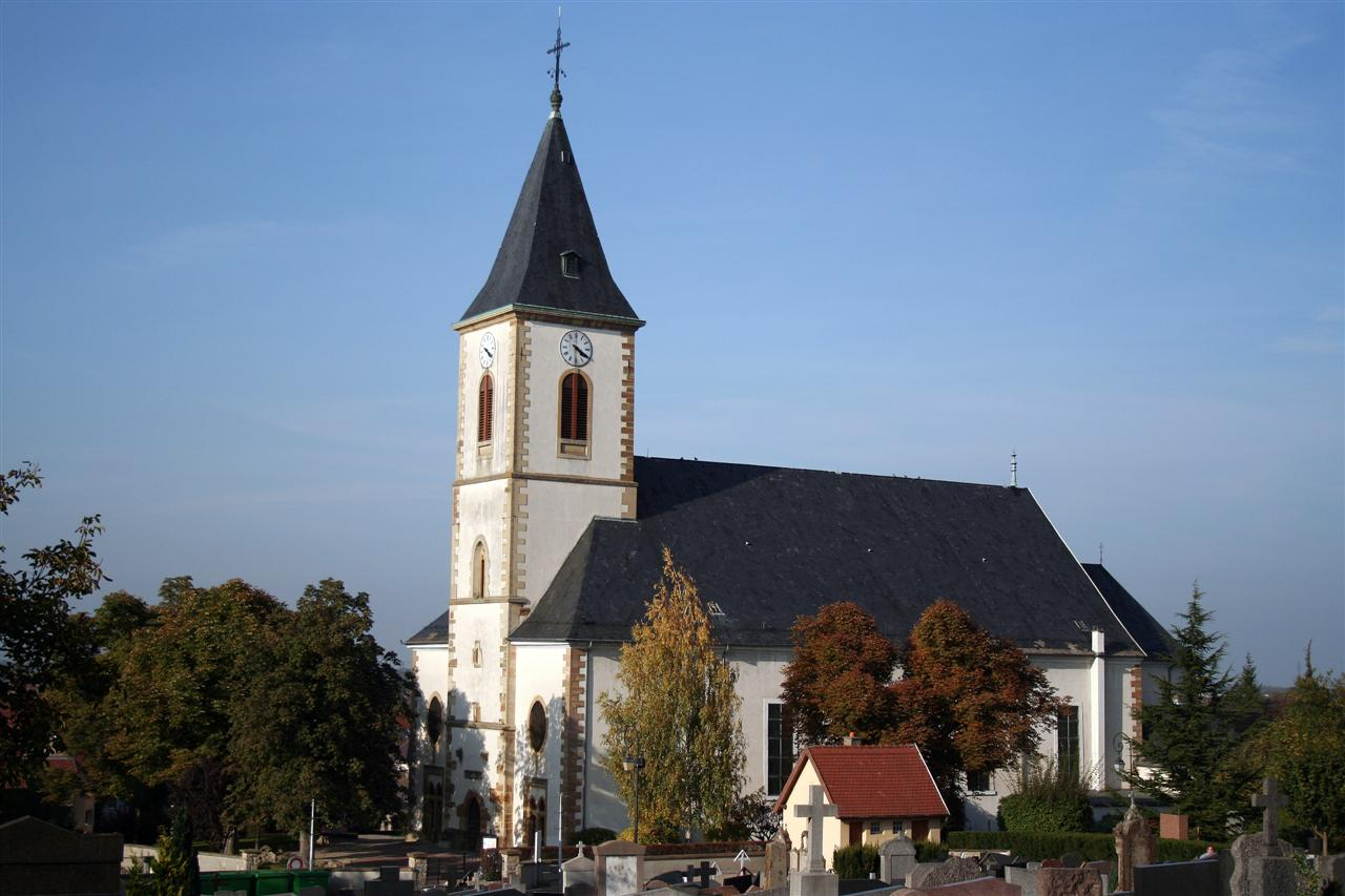 Saint Léger Church, Rixheim, Alsace, France